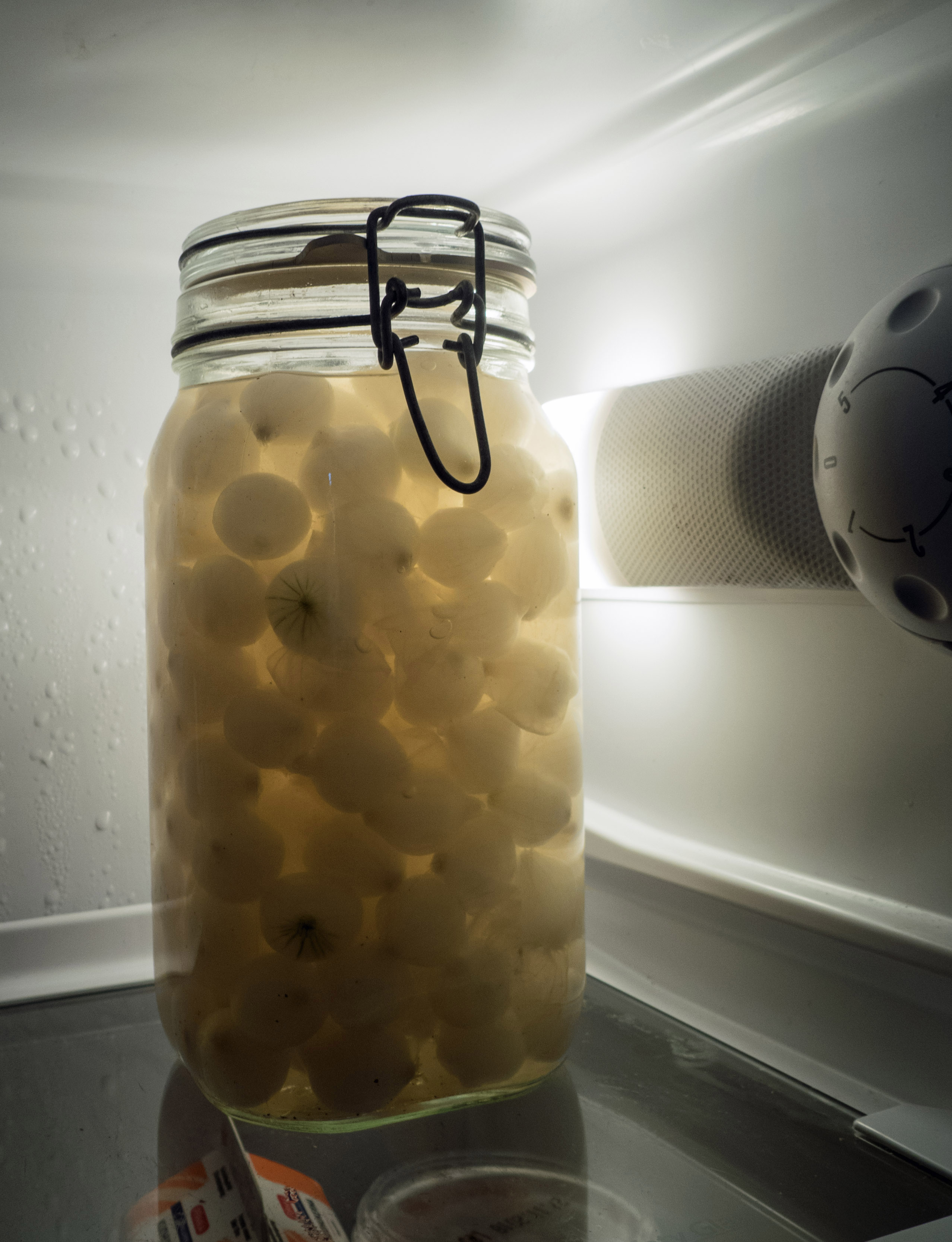 Pickled pearl onions in a glass jar on top shelpf of a fridge, backlit by the fridge lamp.